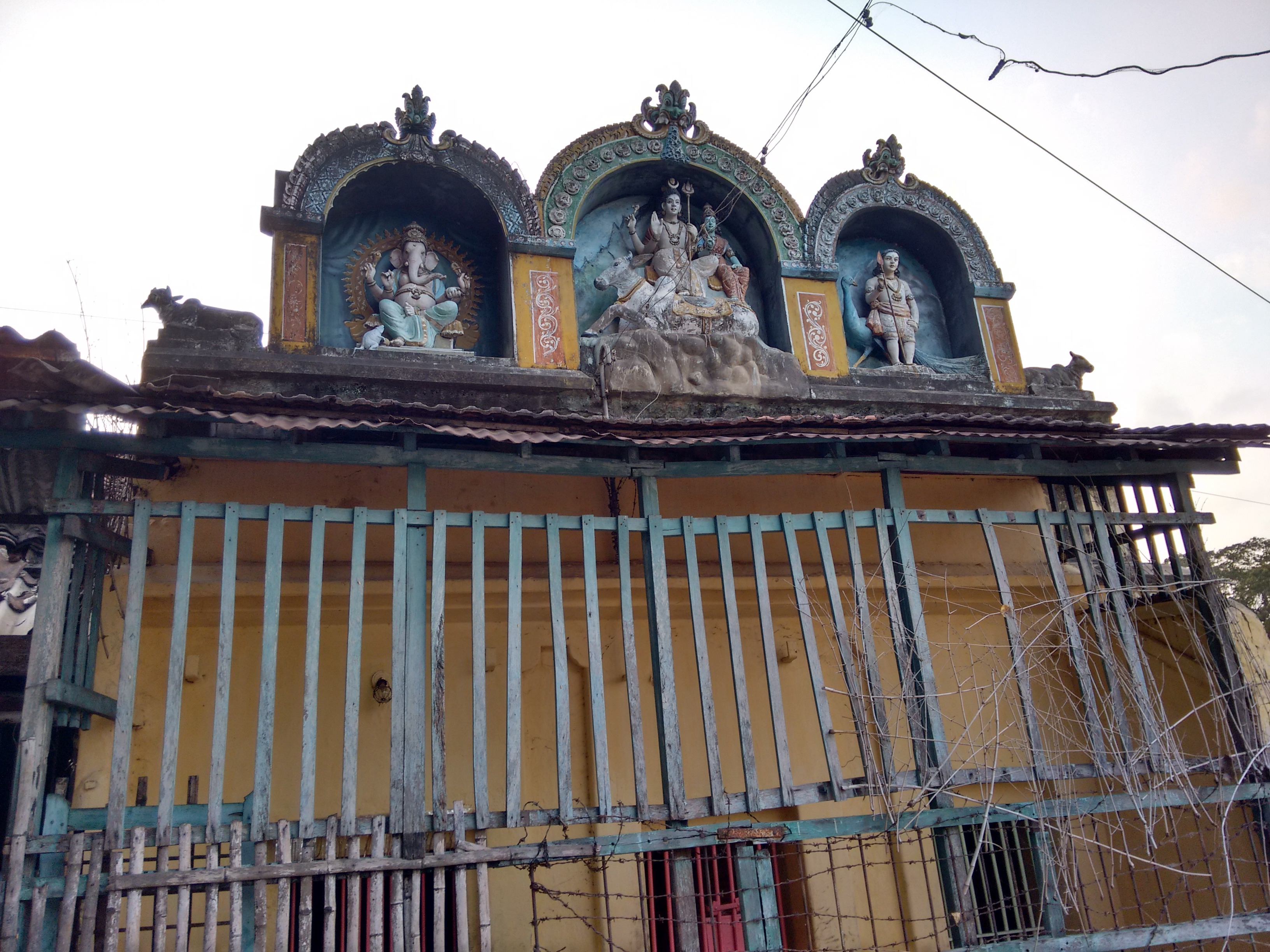 Kumbakonam Meenakshisundaresvarar temple கும்பகோணம் மீனாட்சிசுந்தரேஸ்வரர் கோயில்